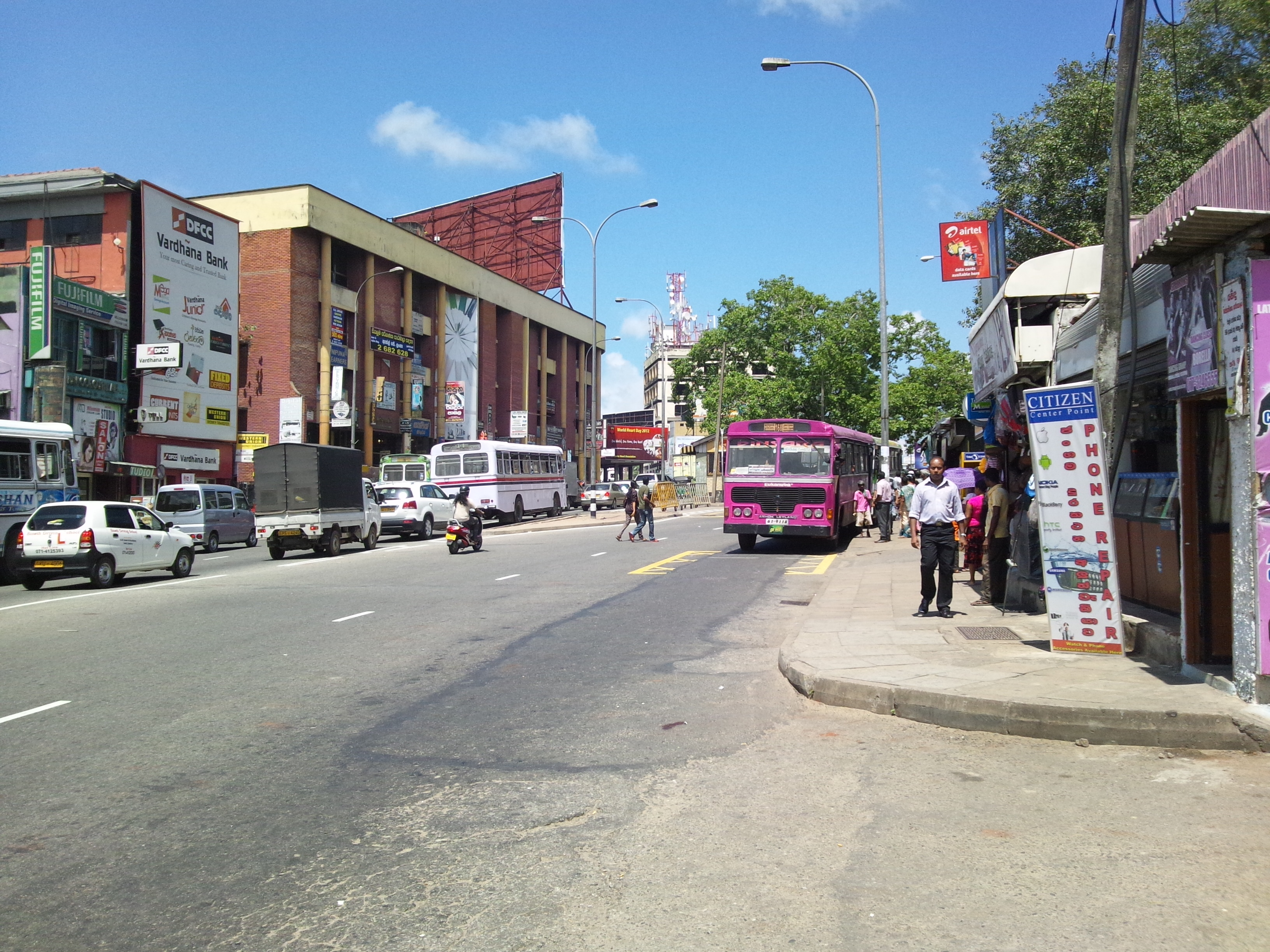 Borella from Rajagiriya said.